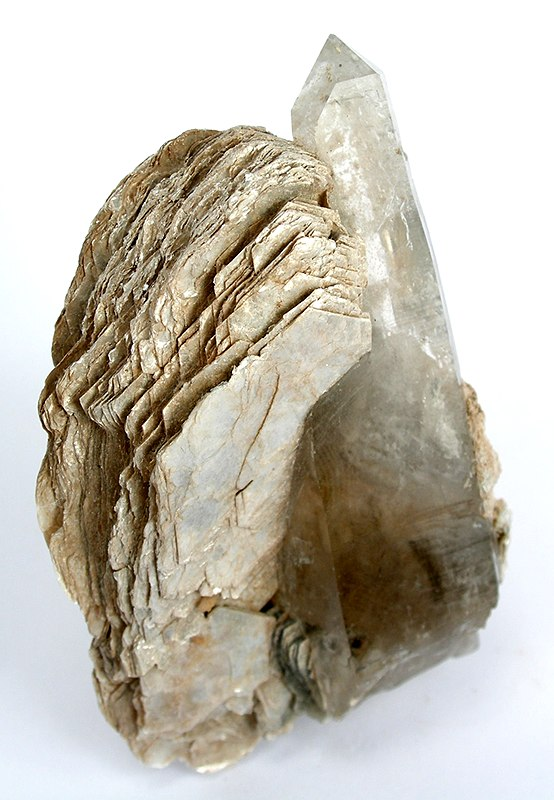 Muscovite, Quartz Locality: Pack Rat Mine, Mt. Tule, Jacumba District, San Diego County, California, USA (Locality at ) Size: small cabinet, 7.0 x 4.4 x 1.1 cm Quartz and Muscovite A neat combination piece, and actually a good muscovite for a County collection. Self-collected by Chuck during late 1980's/early 1990's while the mine was owned and worked by Fred Stevens. Ex. Chuck Houser Collection.